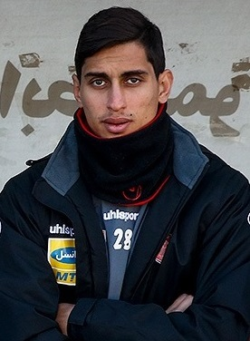 Mohammad Naderi